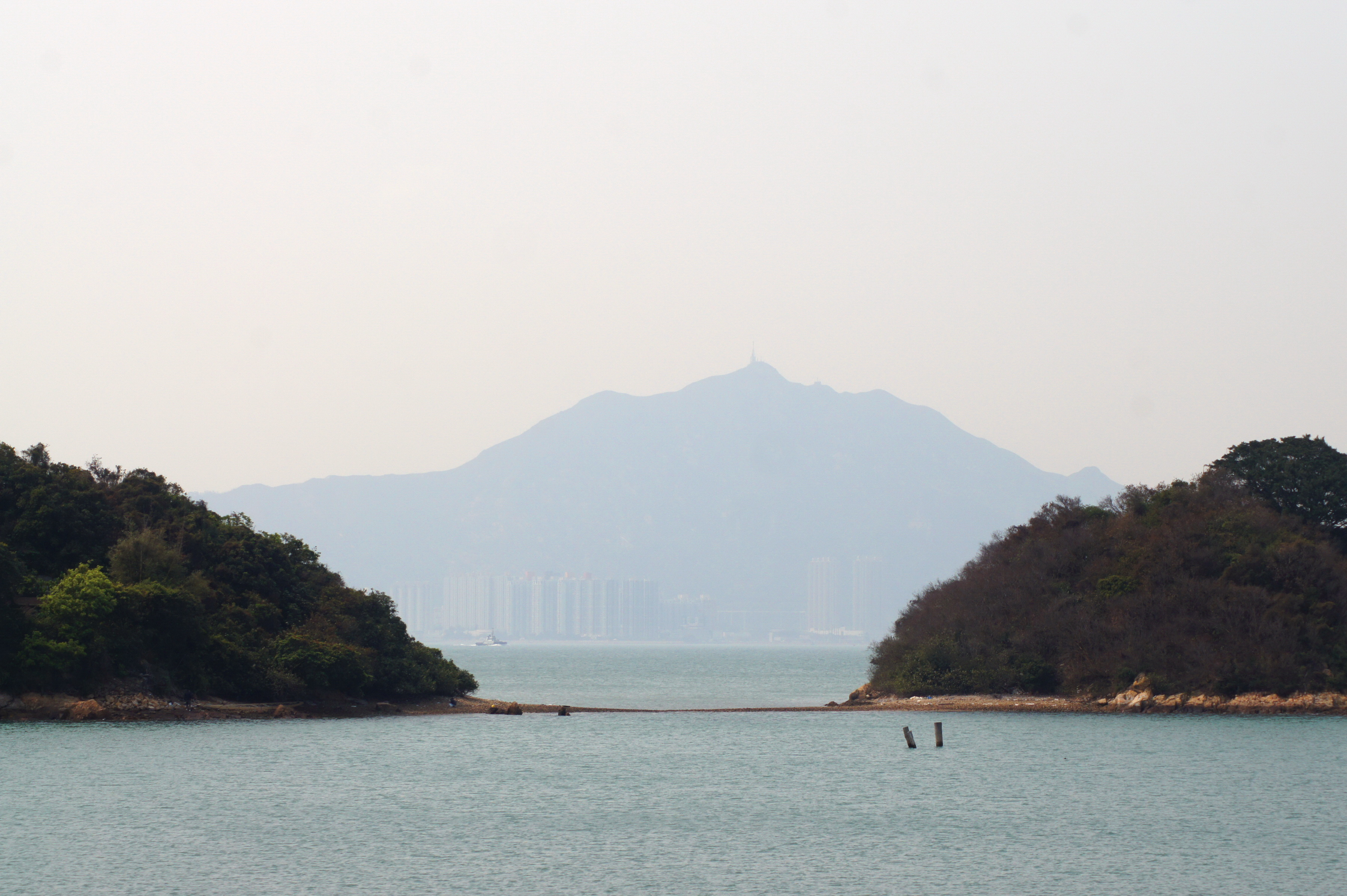 Sandbank linking Luk Keng Village (left) and Cheung Sok (right). In Yam O, Lantau Island, New Territories, Hong Kong. The mountain in the background is Castle Peak.